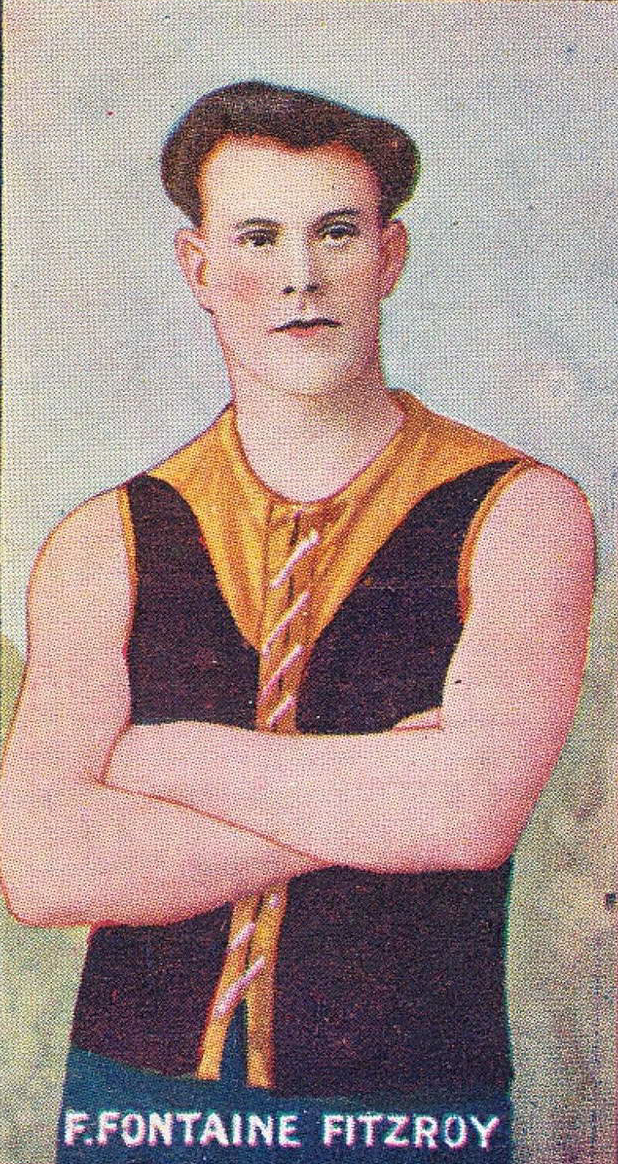 Cigarette card of Fred Fontaine from the Sniders & Abrahams 1907 series